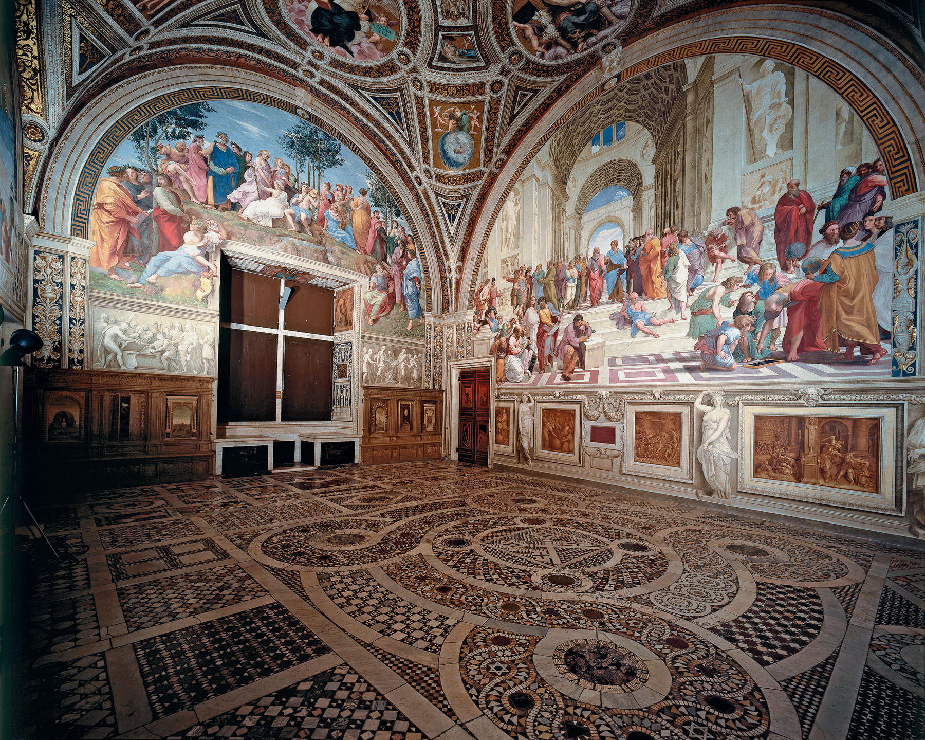 Fresco.